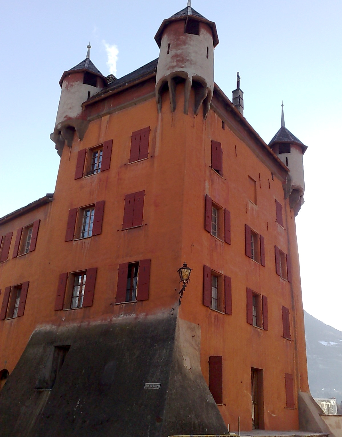 The castle of the Vidomnes in Sierre, Valais, Switzerland (XVth century)